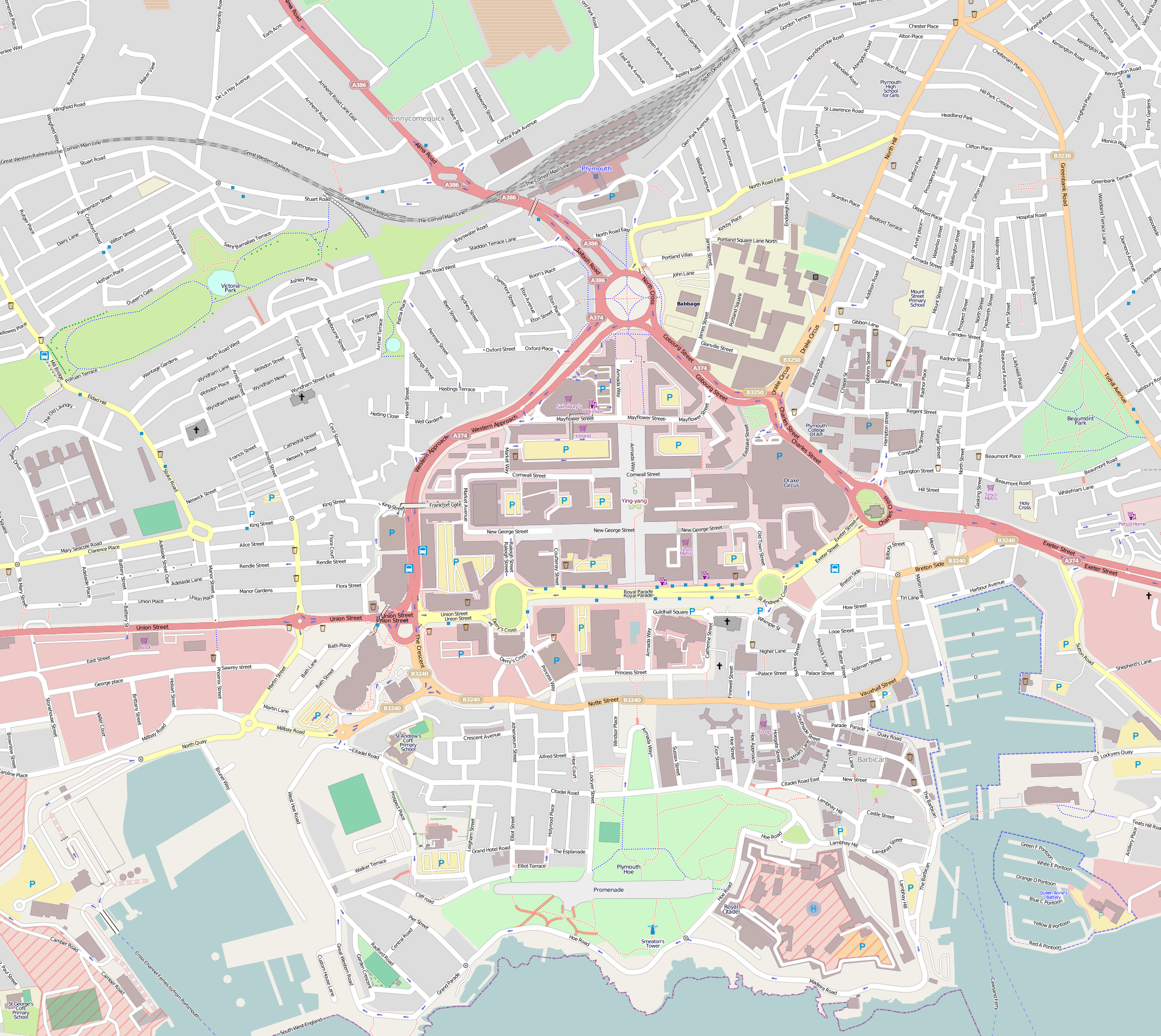 Map of Plymouth Central N: 50.38067° S: 50.36249° W: -4.15978° E: -4.12794°